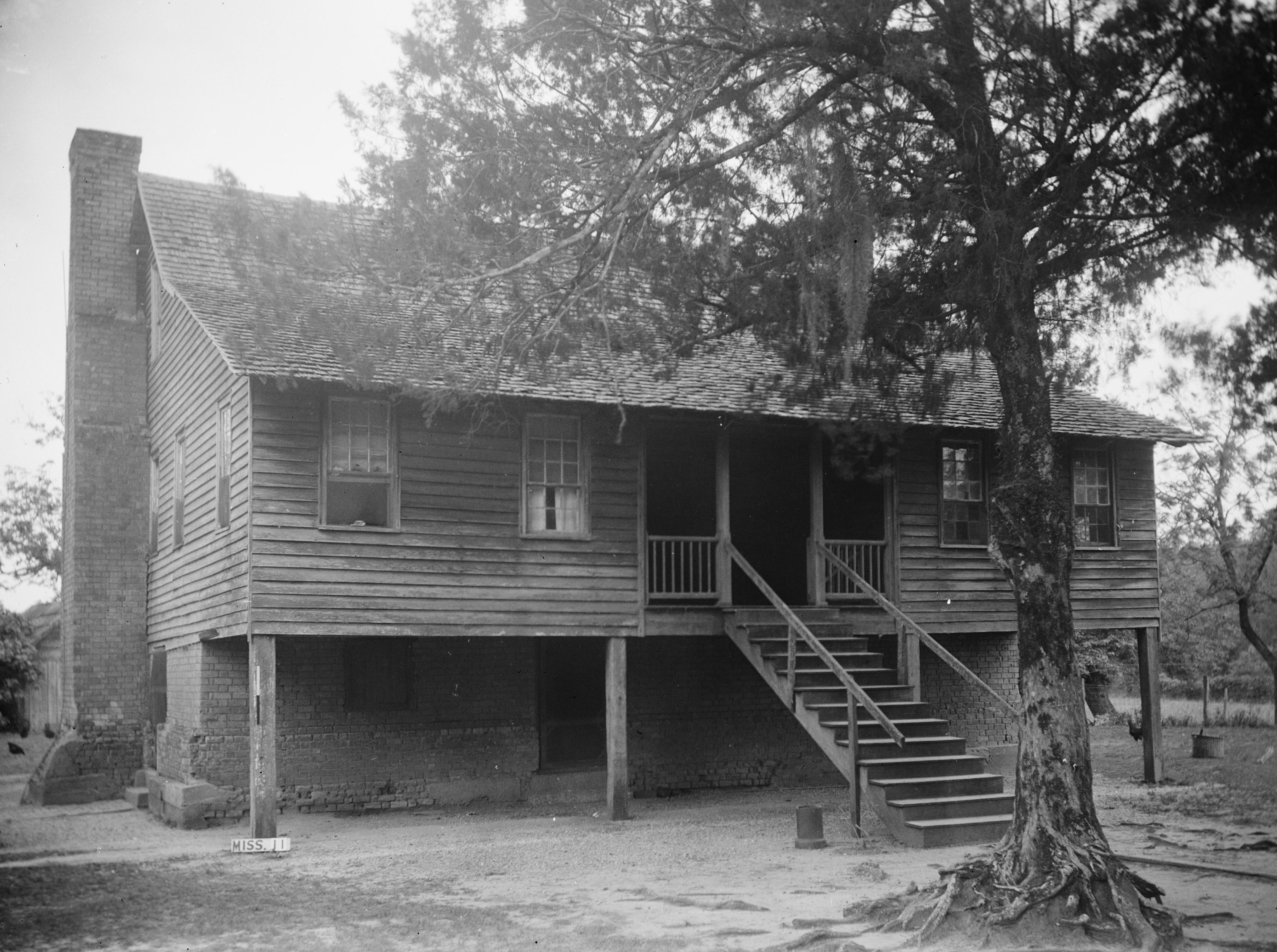 Front of the Ford House, located on Old Columbia-Covington Road south of Sandy Hook in Marion County, Mississippi, United States. Built in 1810, it is listed on the National Register of Historic Places.